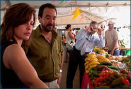 Food and Nutrition Service Deputy Under Secretary Suzanne Biermann and Puerto Rico Agriculture Secretary Luis Rivero Cubano at a farmers market in San Juan.